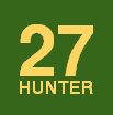 I, the Silent Wind of Doom made this picture on MSPaint to serve as a retired number on the Oakland Athletics page